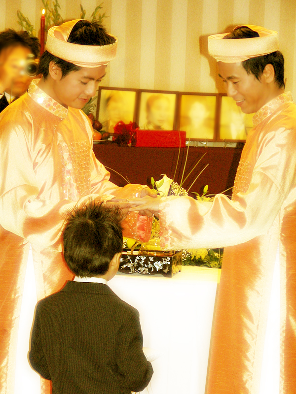 Wedding pic of Nguyen & Khanh